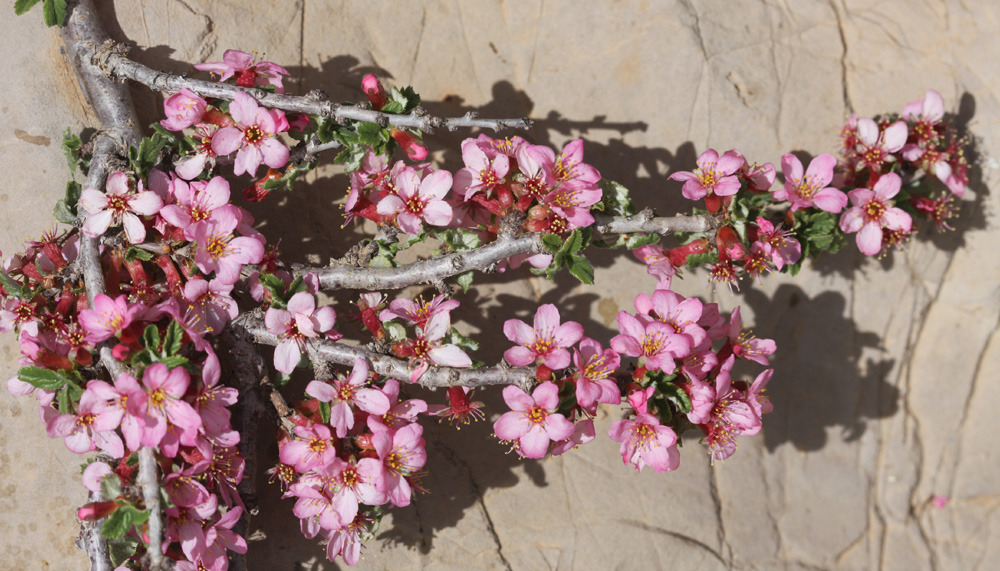 Cerasus prostrata, Plants of Israel